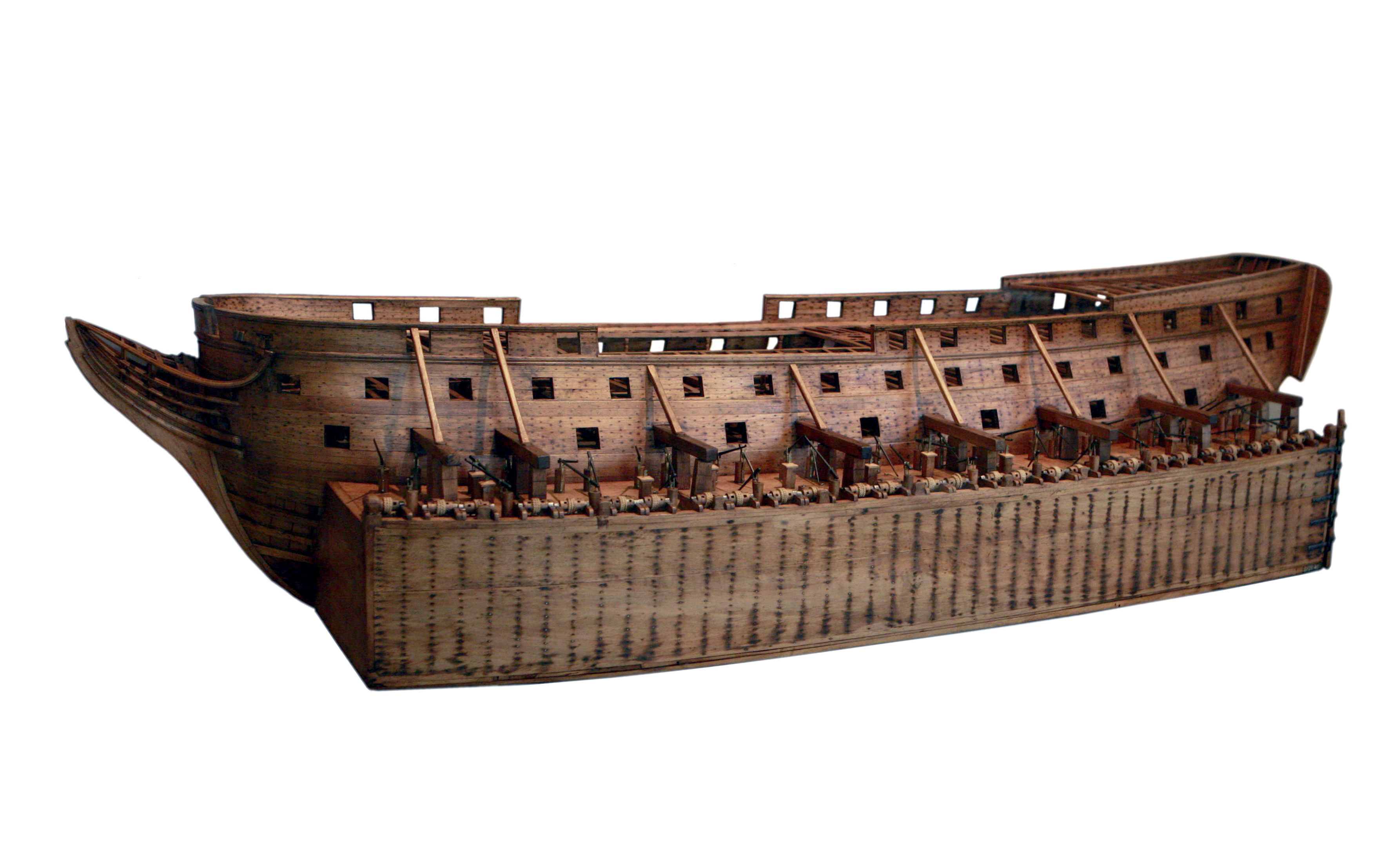 74-gun Téméraire class ship of the line of the line supported by a special-purpose floating dock. This system was used to allow large units to exit Venice harbour in spite of its shallow waters. This system, called "chameau" ("camel"), was used by two ships: Rivoli and Mont Saint-Bernard. Access number 27 CN 42 at the Naval museum of Toulon.